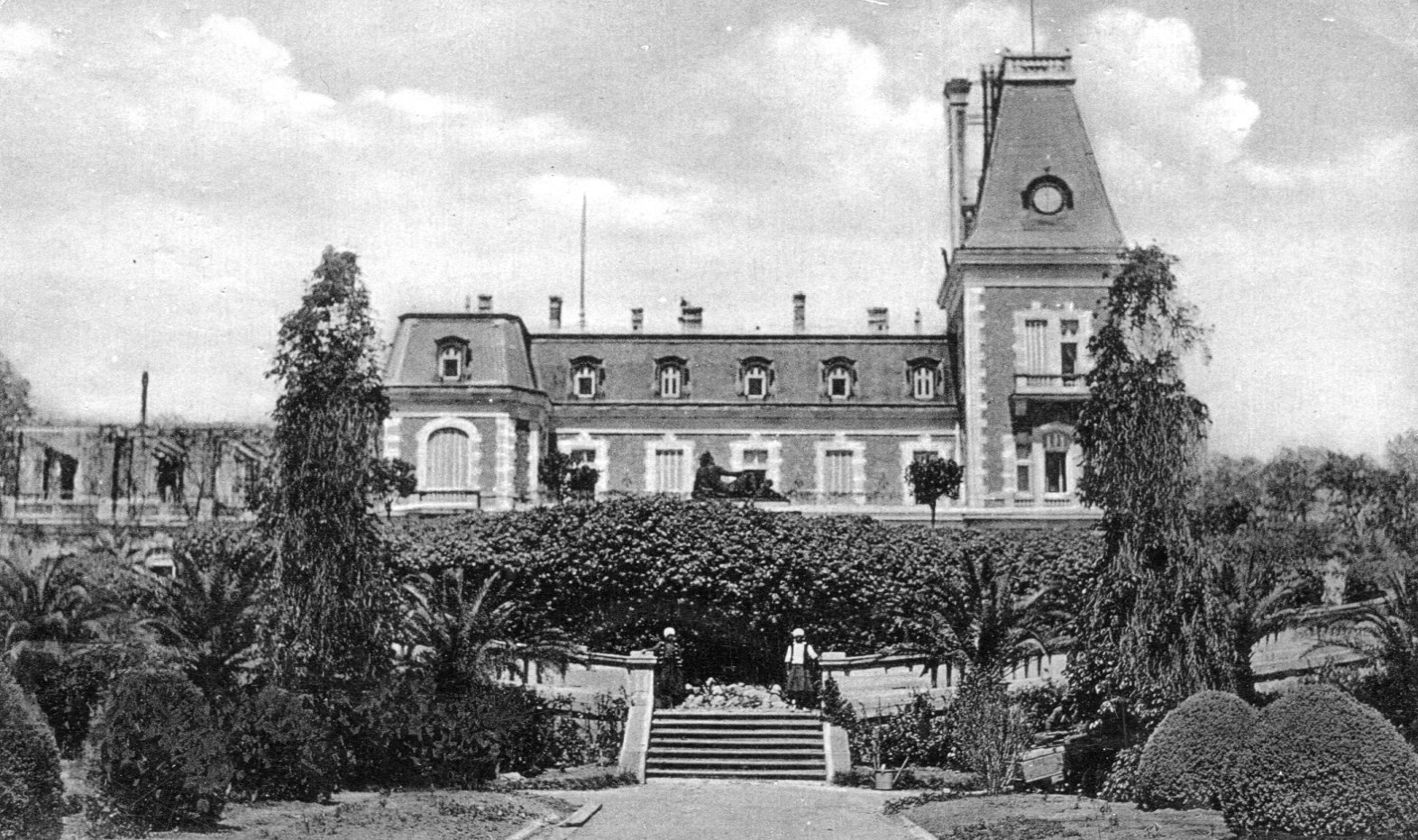 Royal summer palace Euxinograd near by Varna after I World War